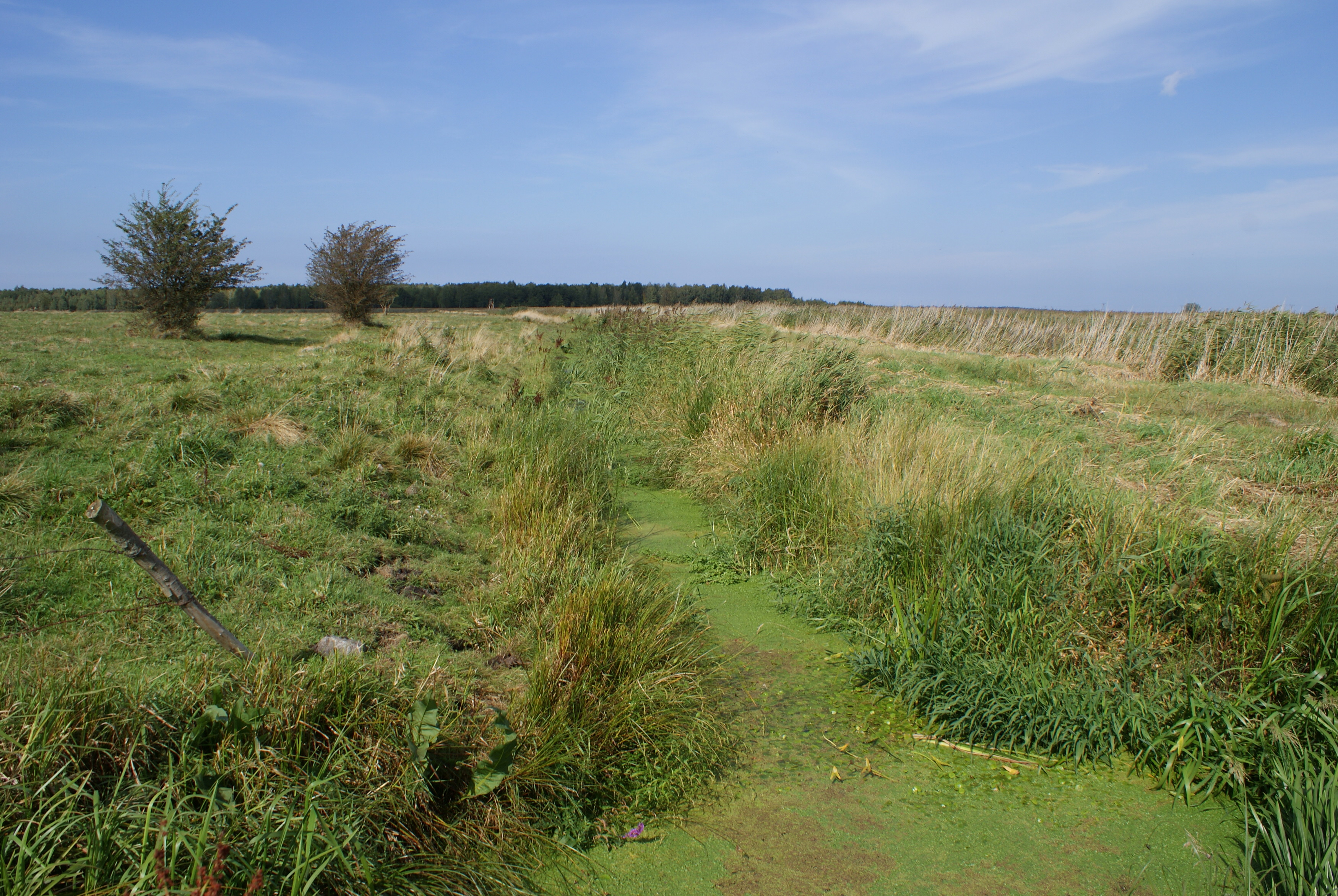 Mrzeżyno II Canal flowing north, Poland